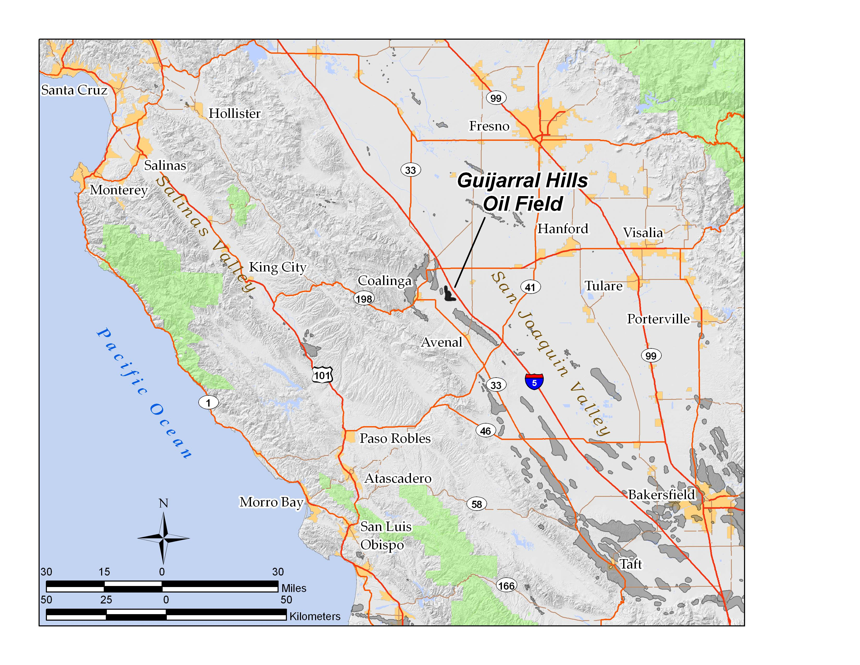 Location of the place. ArcGIS 9.3, by self, all data public domain, GFDL/equiv